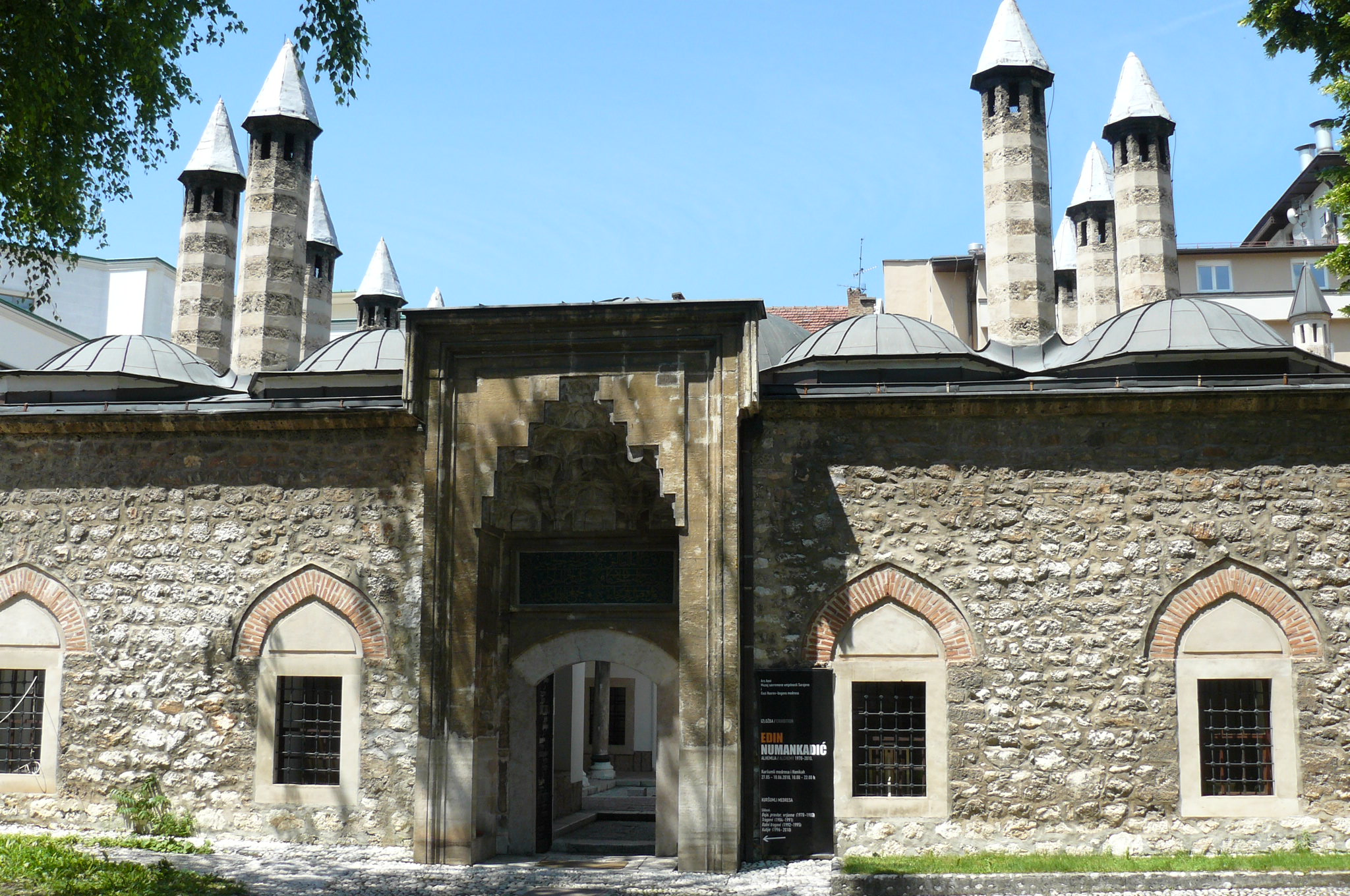 Medresa Seldzukija Sarajevo.